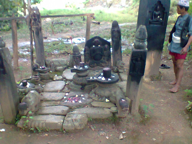 Padukasthan